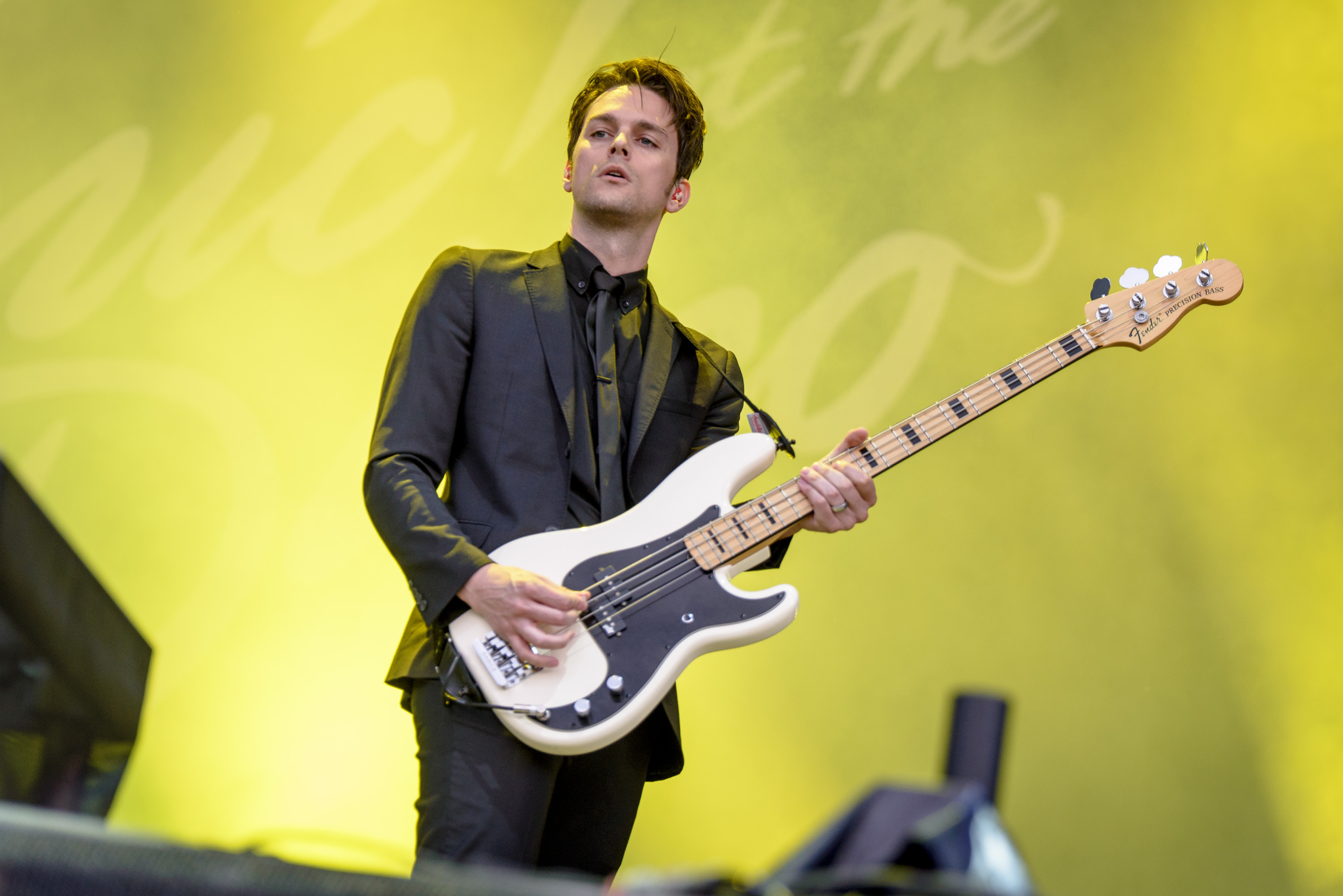 Panic! at the Disco @ Rock im Park 2016